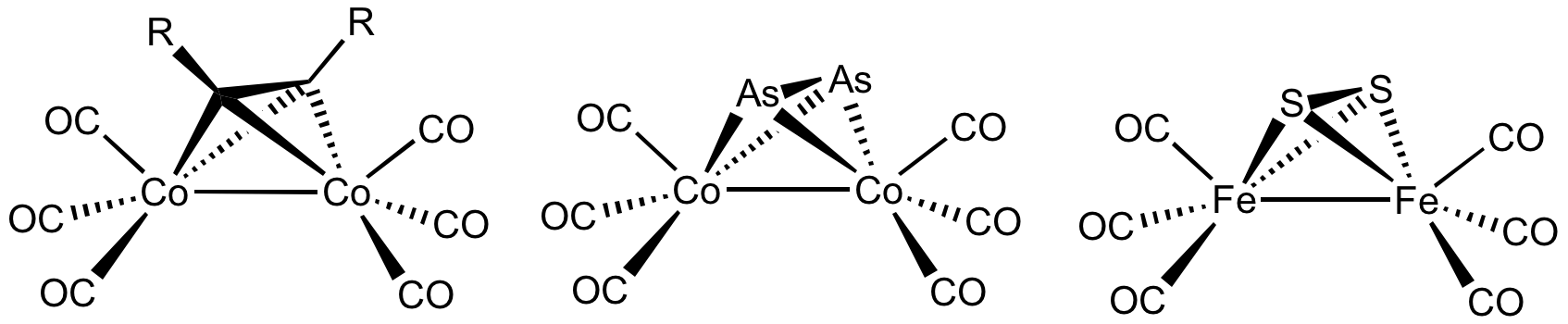 chemical structures sometimes called tetrahedranes